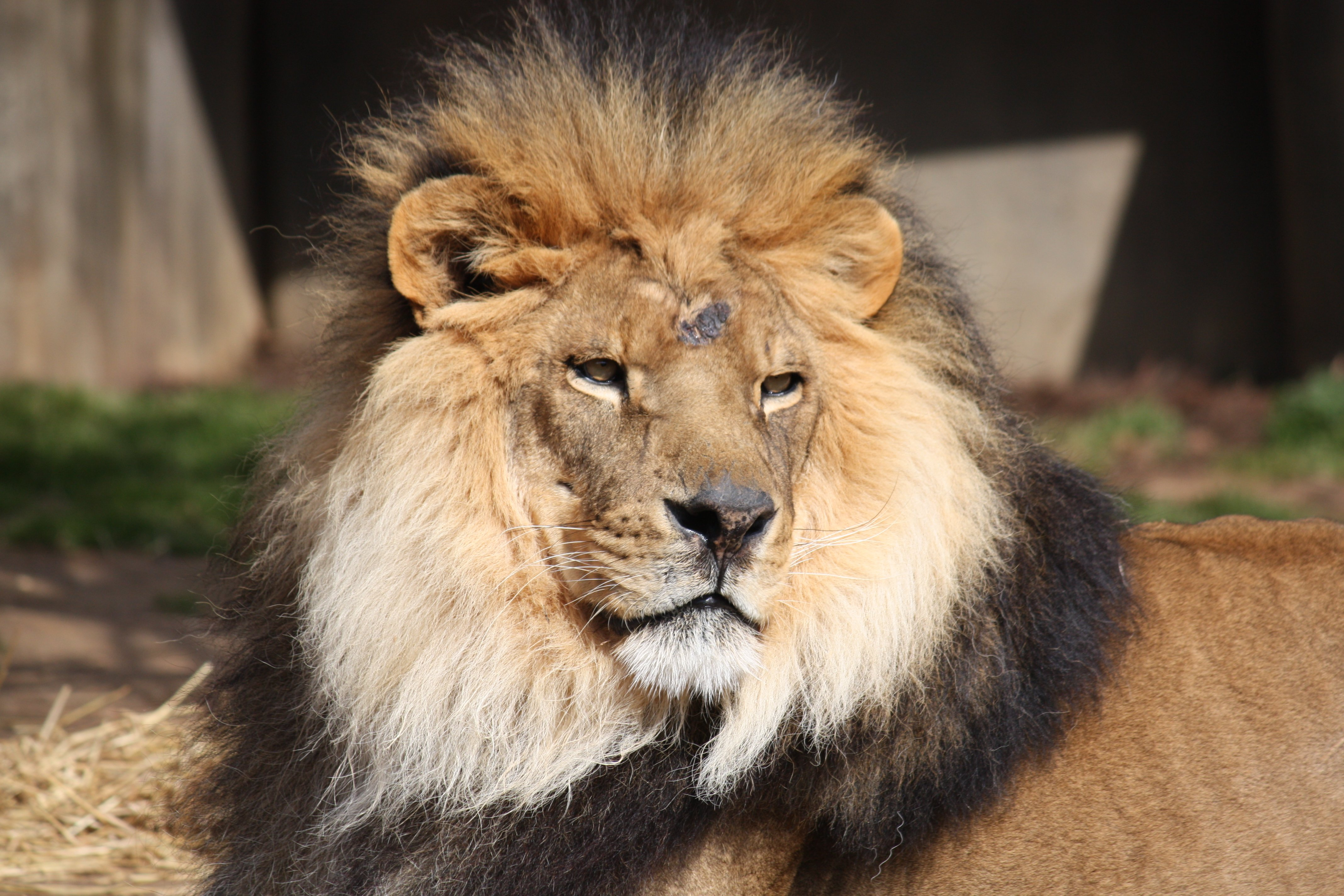 African Lion at Louisville Zoo